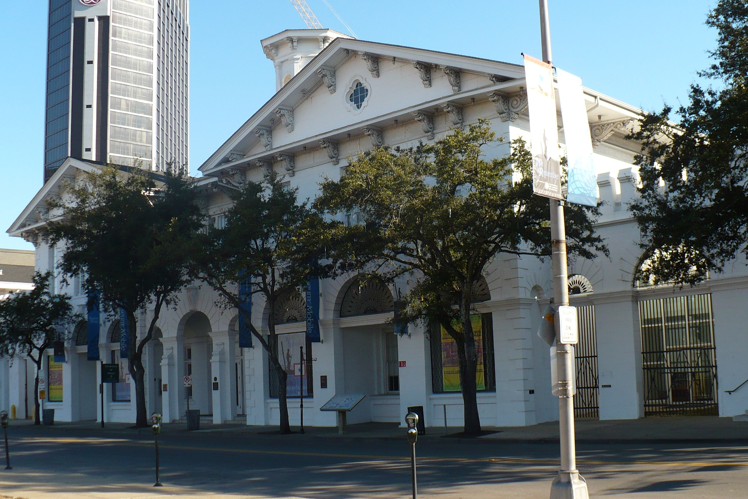 Old City Hall and Southern Market in Mobile, Alabama. Currently home of the Museum of Mobile.